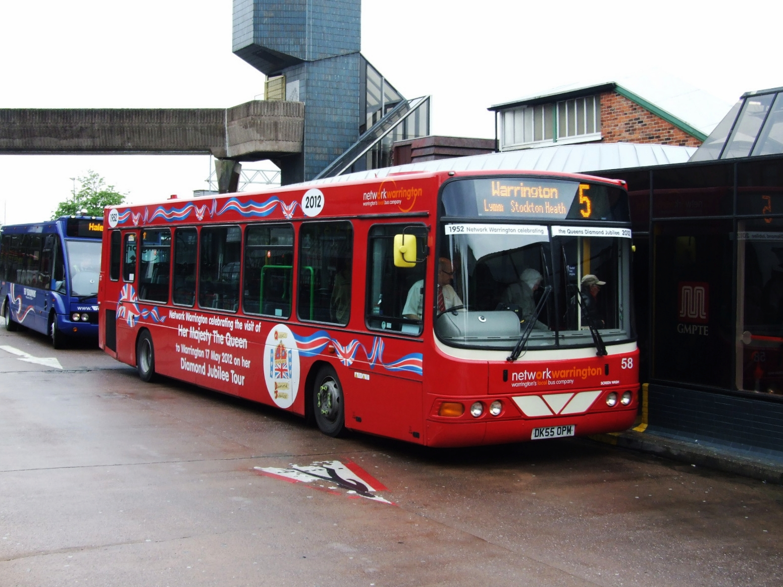 Warrington Borough Transport bus 58 (reg. DK55 OPM), a 2006 VDL SB120 midibus with Wrightbus Cadet bodywork, pictured in Altrincham Interchange operating route 5 to Warrington. It's wearing a special livery commemorating Queen Elizabeth II's visit to Warrington on 17 May 2012, as part of her Diamond Jubilee tour. Warrington also applied Jubilee liveries for the 1977 and 2002 celebrations. and 2002.